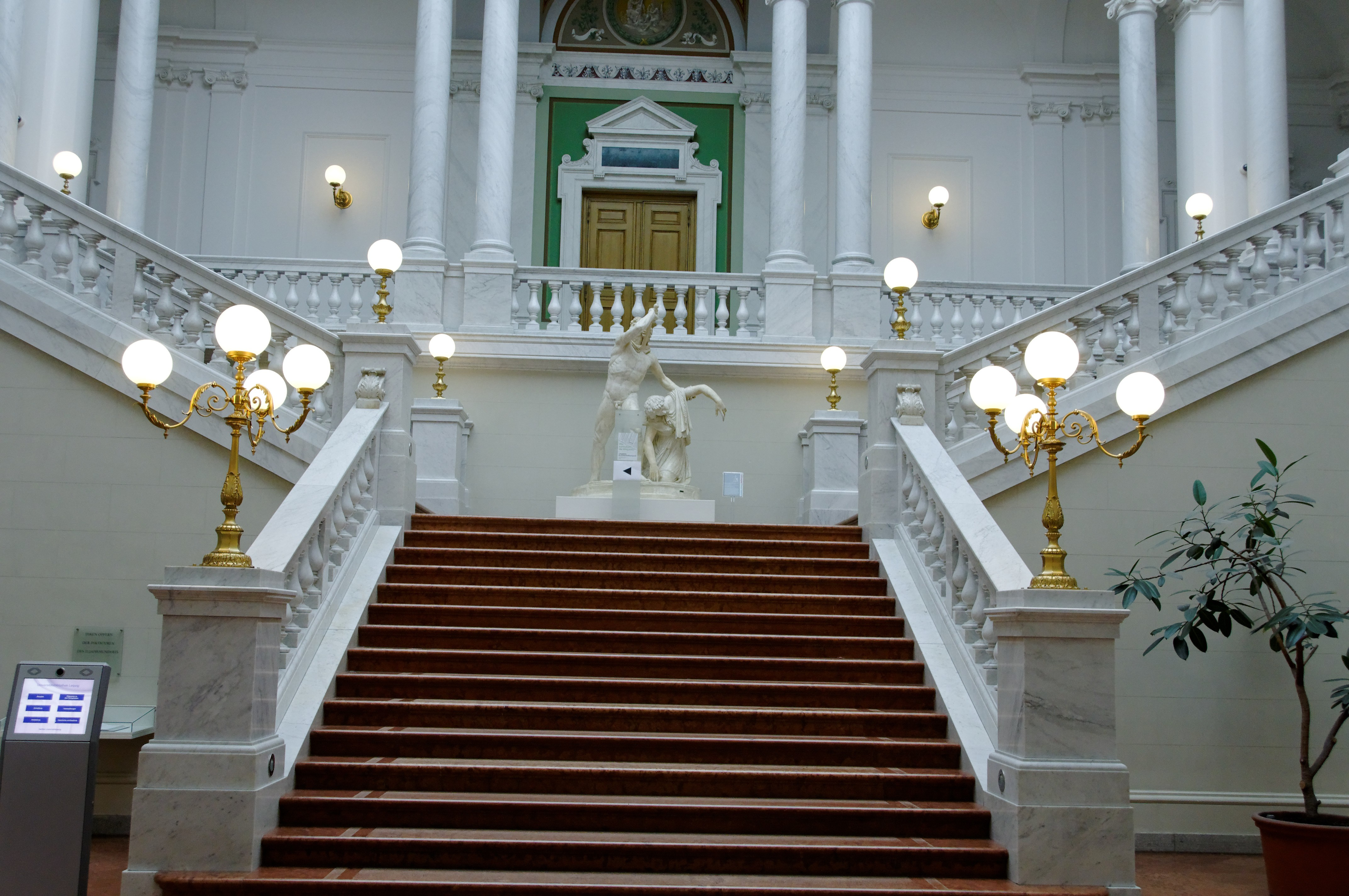 Wikipedia: A critical point of view. CPOV-Conference in Leipzig Germany; September 2010